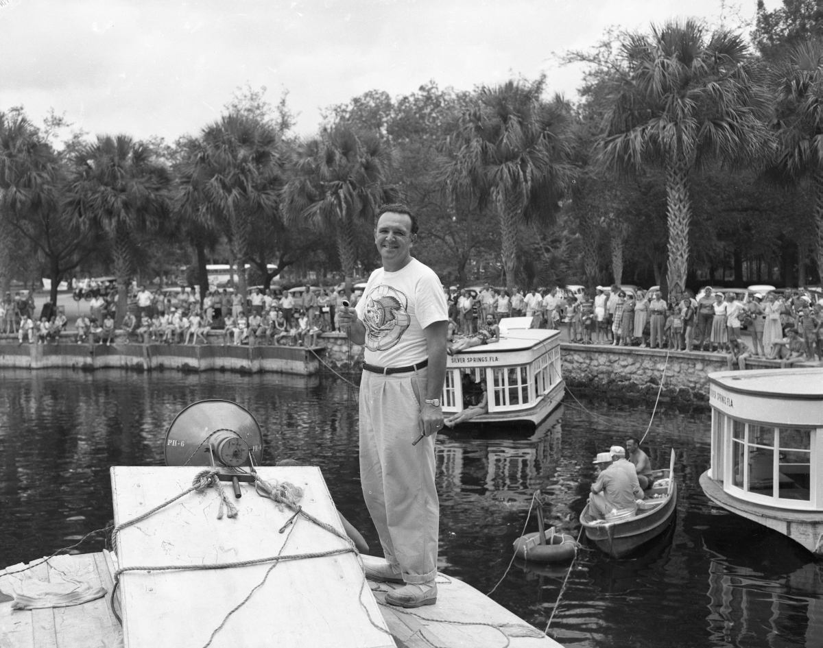 Director George Sidney on boat while filming "Jupiter's Darling" at Silver Springs.